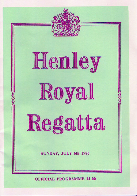 Henley Royal Regatta programme, 1986